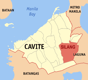 Map of Cavite showing the location of Silang